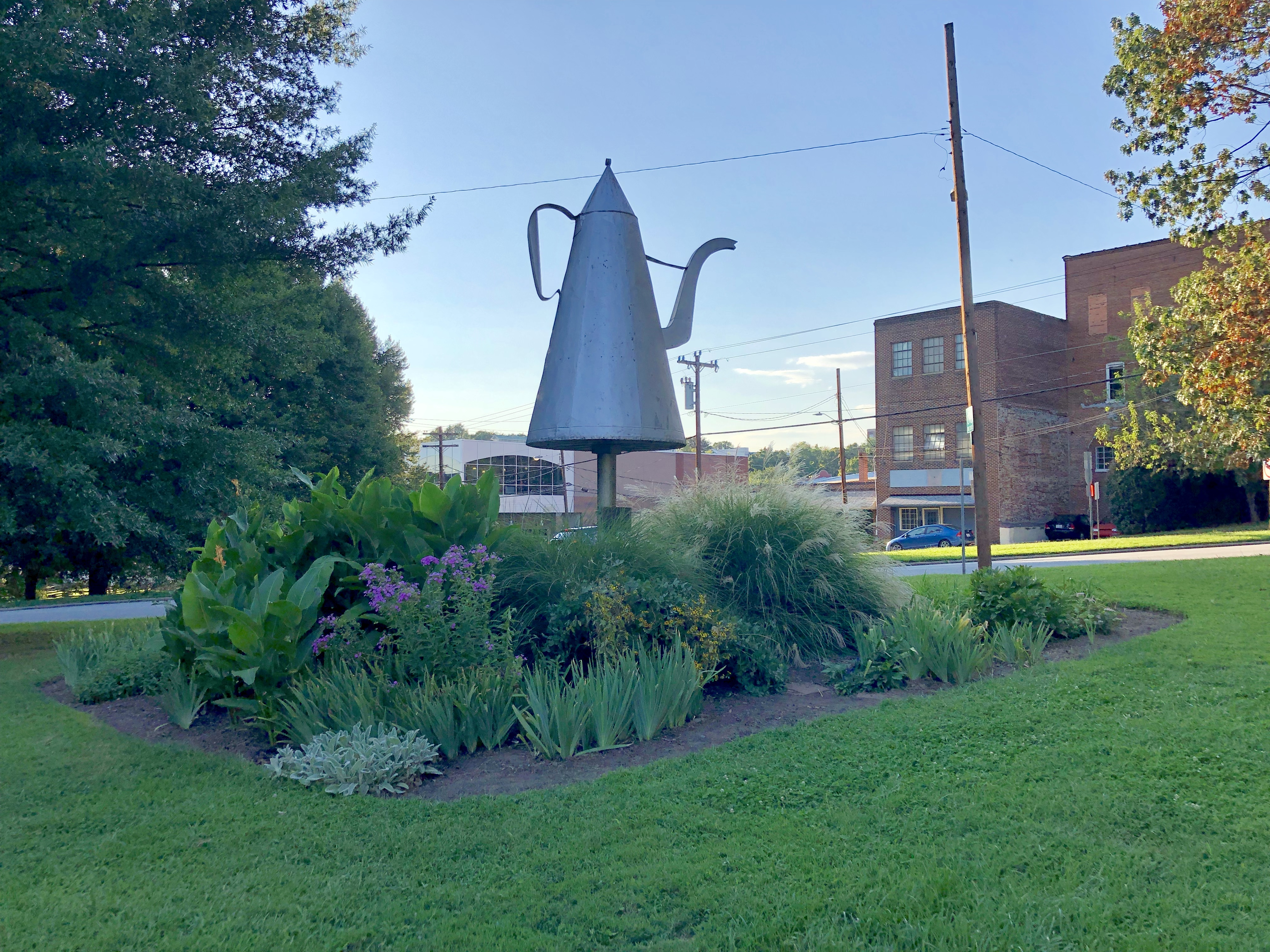 The Coffee Pot, Old Salem, Winston-Salem, NC